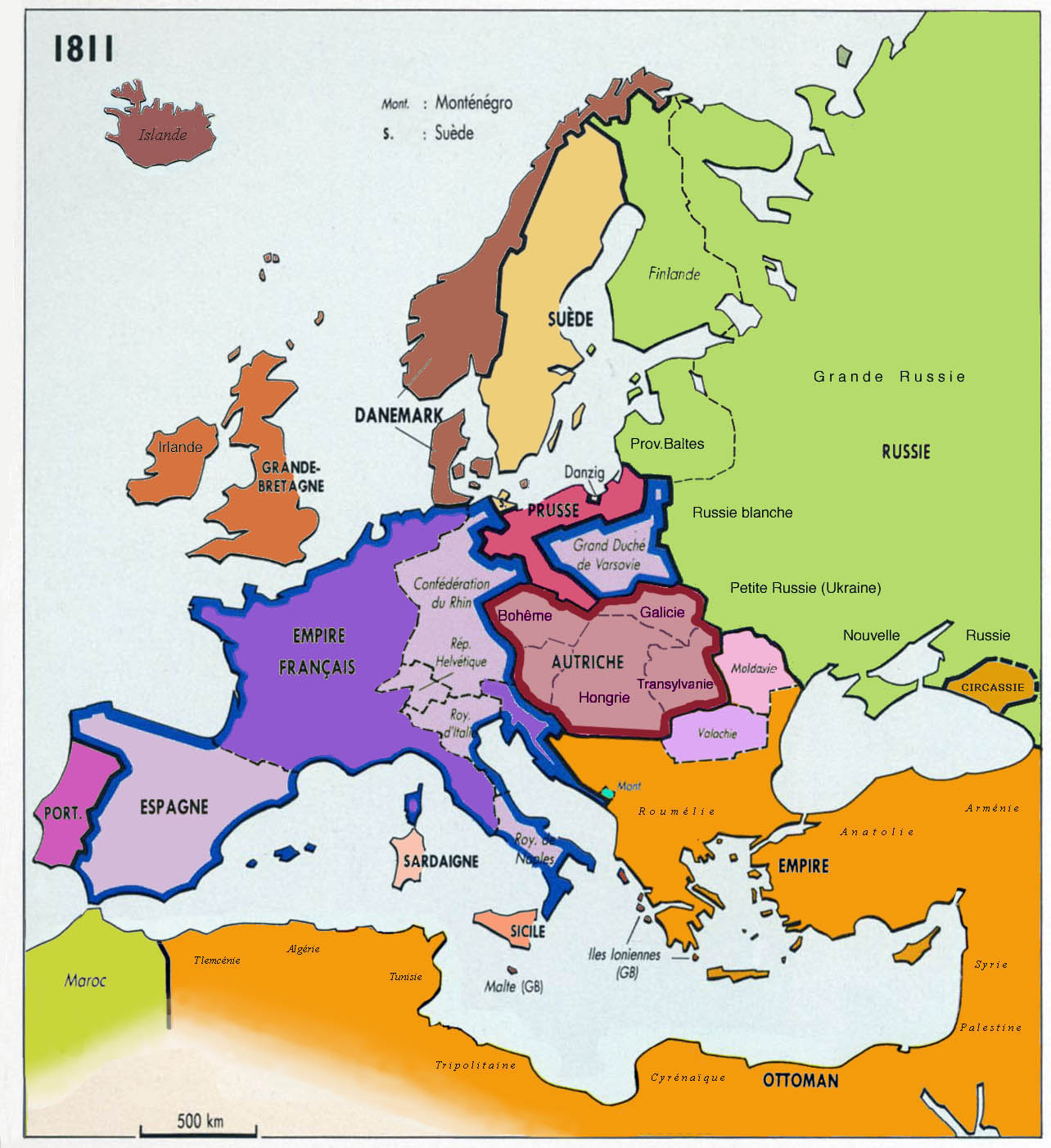 Historical map of Europe, year 1811